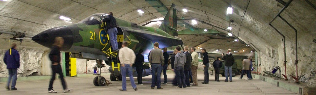 A Saab AJSH 37 Viggen at the museum Aeroseum, the mountain hangar of the former Swedish Airforce wing F 9 Säve.